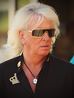 Swedish media profile Nalle Knutsson in Stockholm.